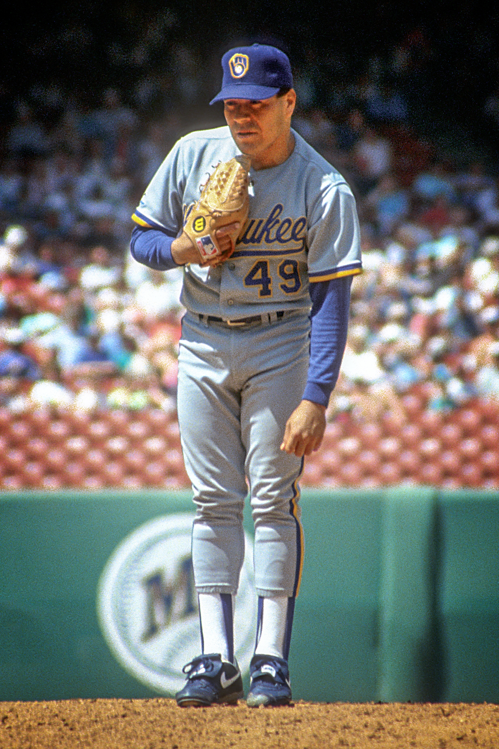 After working a game in San Diego for ESPN, I stopped by Anaheim Stadium on my way home on June 12, 1991 to watch and photograph former teammates from the Brewers and the Angels. Here's a look at the best shots from that game.